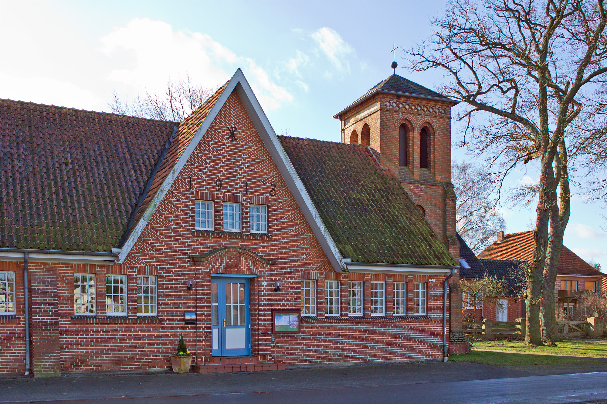 Cultural heritage monument "Dorfstrasse 18" (former No 19) in the village Woltersdorf (district Lüchow-Dannenberg, northern Germany). Multipurpose building from 1913 with integrated chapel bell-tower from 1877.